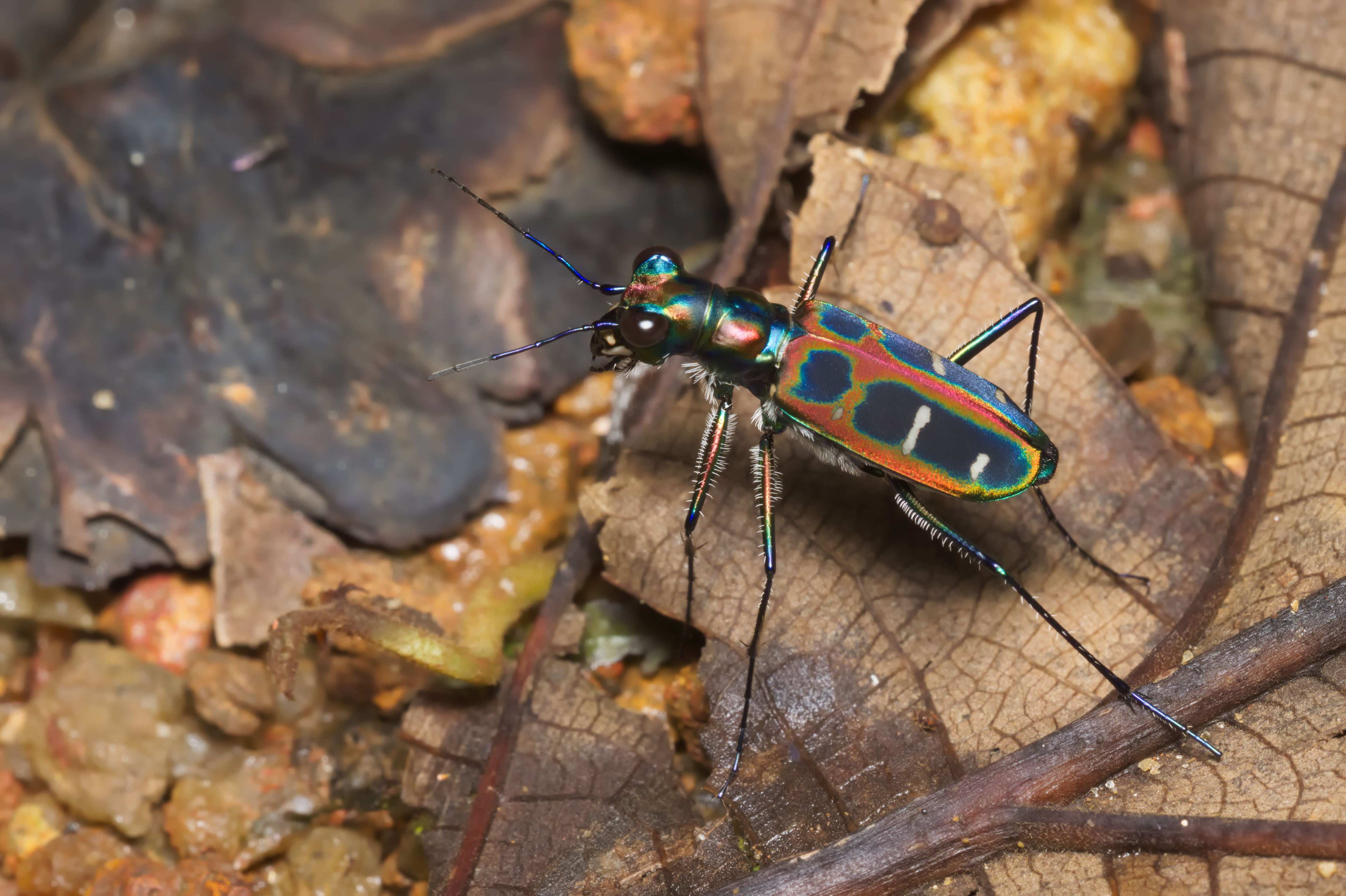 Cicindela duponti, belong to Cicindela, commonly known as Common tiger beetles, are generally brightly colored and metallic beetles, often with some sort of patterning of ivory or cream-colored markings. They are most abundant and diverse in habitats with sandy soil (though some prefer clay), and very often near bodies of water, even if seasonally transient; along river, sea and lake shores, on sand dunes, around playa lakebeds and on clay banks or woodland paths.